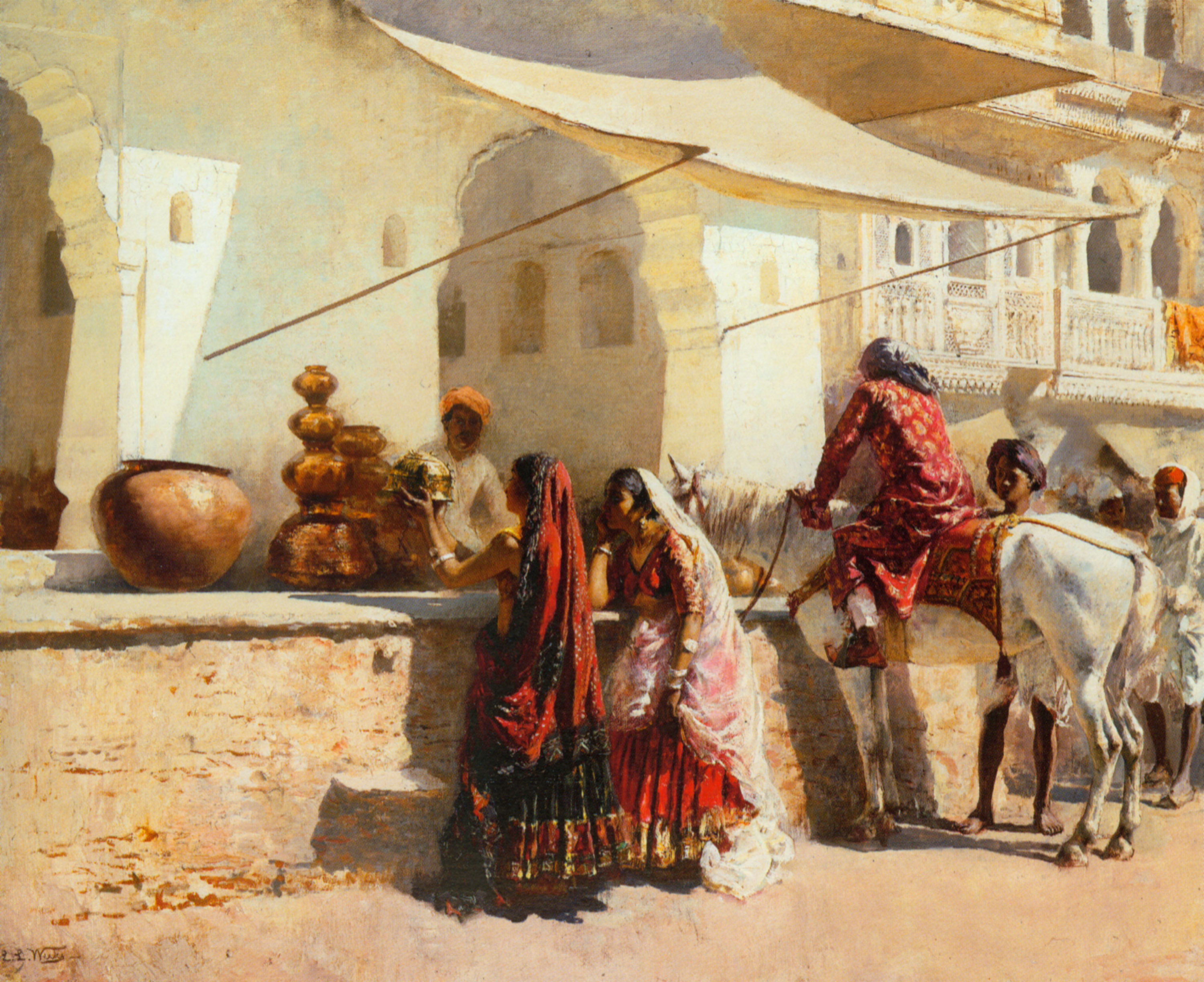 A Street Market Scene, India